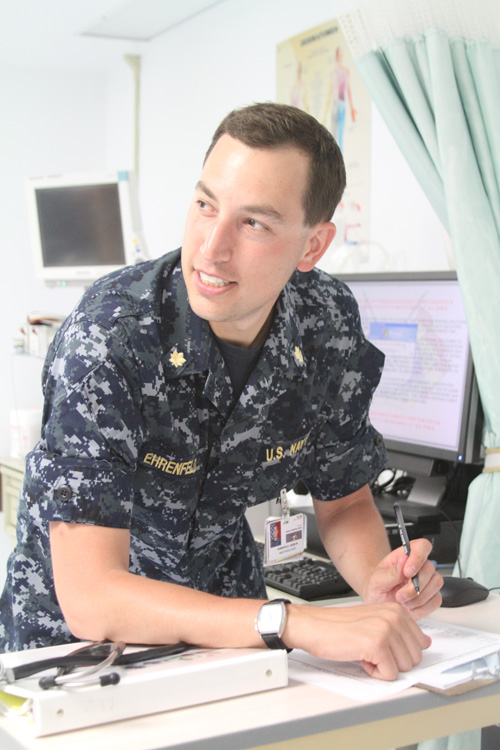 Jesse Ehrenfeld in Rota, Spain 2013